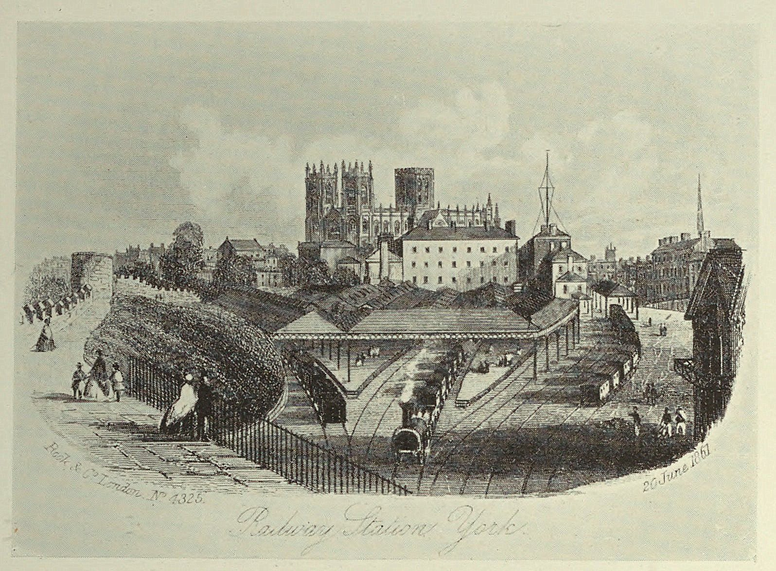 York "old" railway station, the first railway station in York, was jointly built by the York and North Midland Railway and Great North of England Railway. Drawing has the inscription "Rook & Co., London No. 4325" and "20 June 1861".